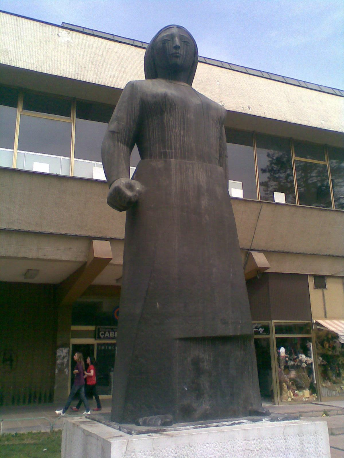 Monument of the woman fighter in the National Liberation War of Macedonia, in Tetovo, Republic of Macedonia.